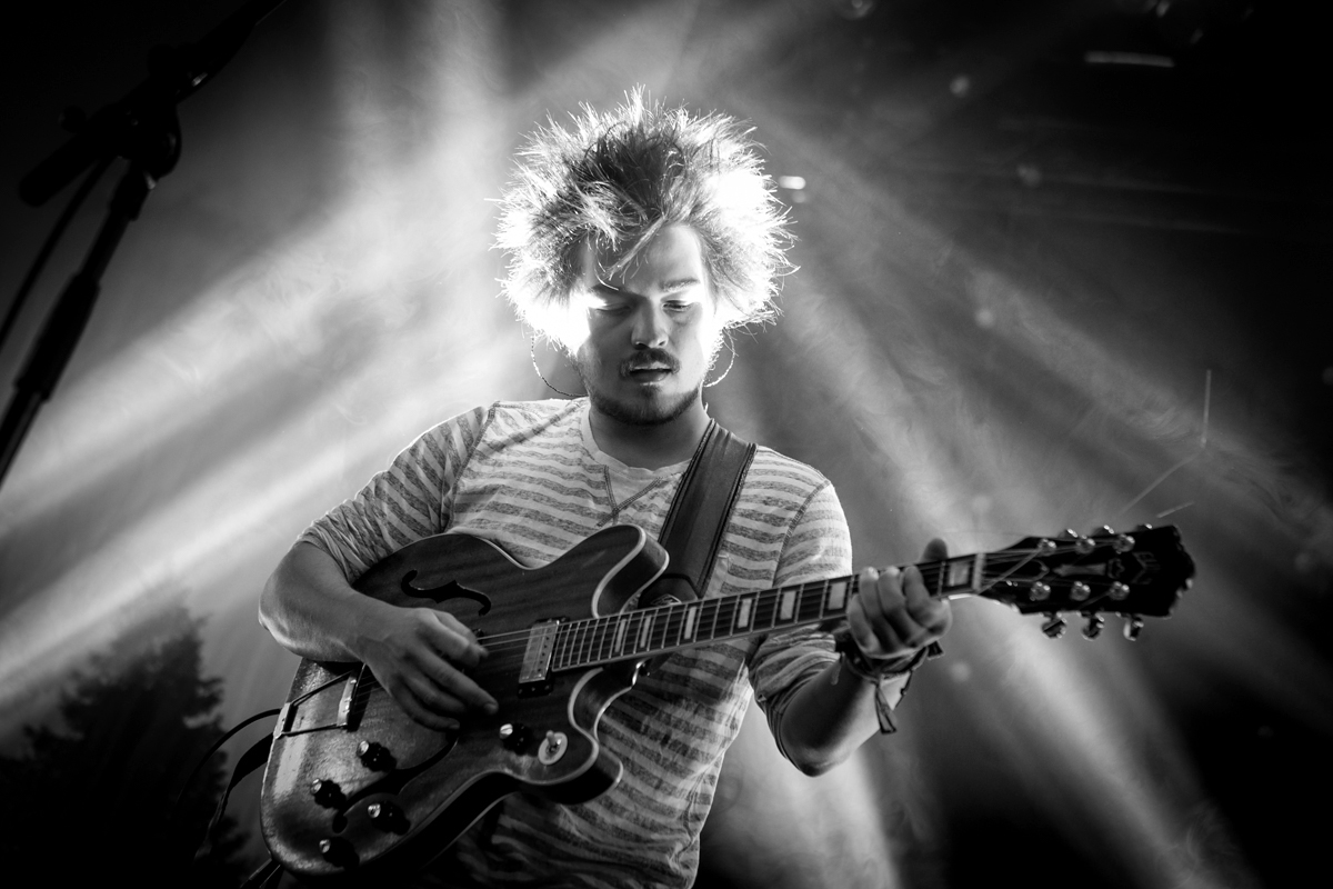 milky chance | oasg 2014